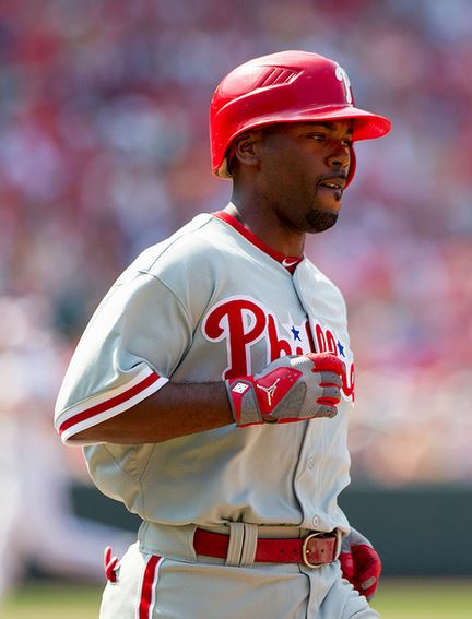 Jimmy Rollins baserunning in a game against the Baltimore Orioles on June 8, 2012